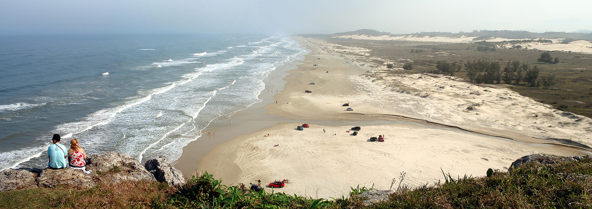 Beach of Guarita II or Beach of Fora, health-resort of Towers, Brazil.